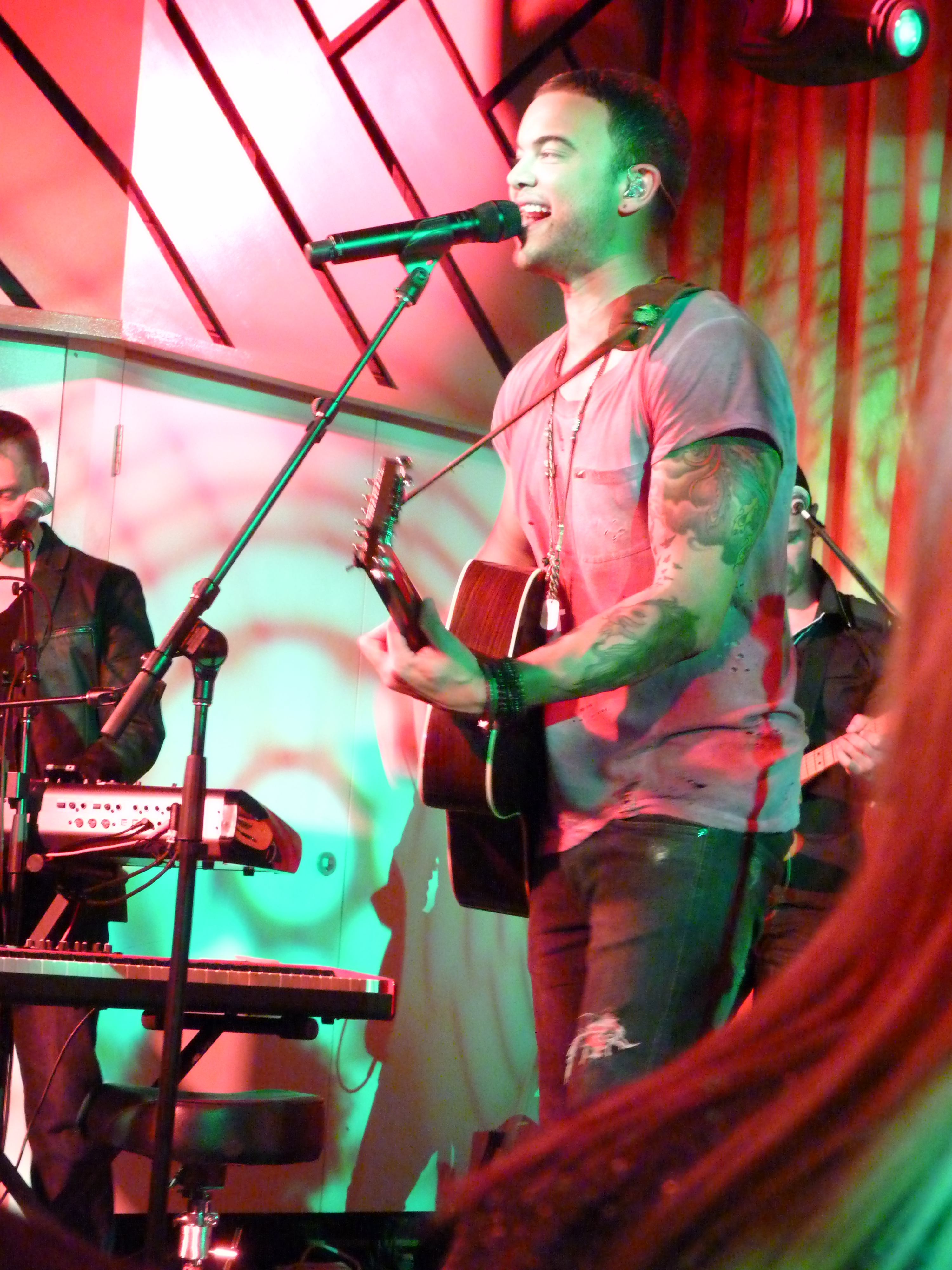 Photograph taken at Media Launch for new single DON'T WORRY BE HAPPY by Guy Sebastian. The event was held at Beresford Hotel in Surrey Hills, Sydney.